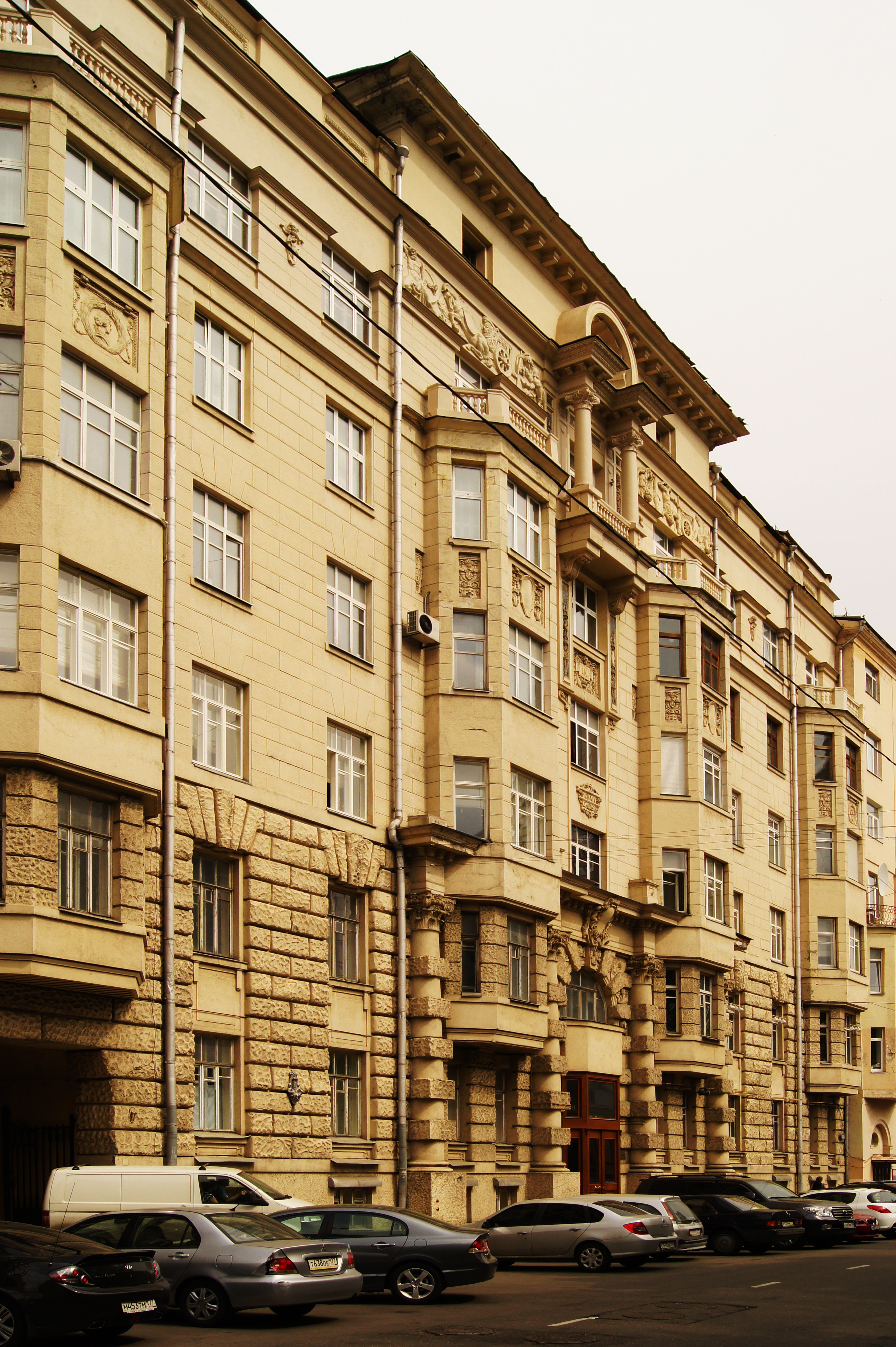 Povarskaya Street Moscow, 20